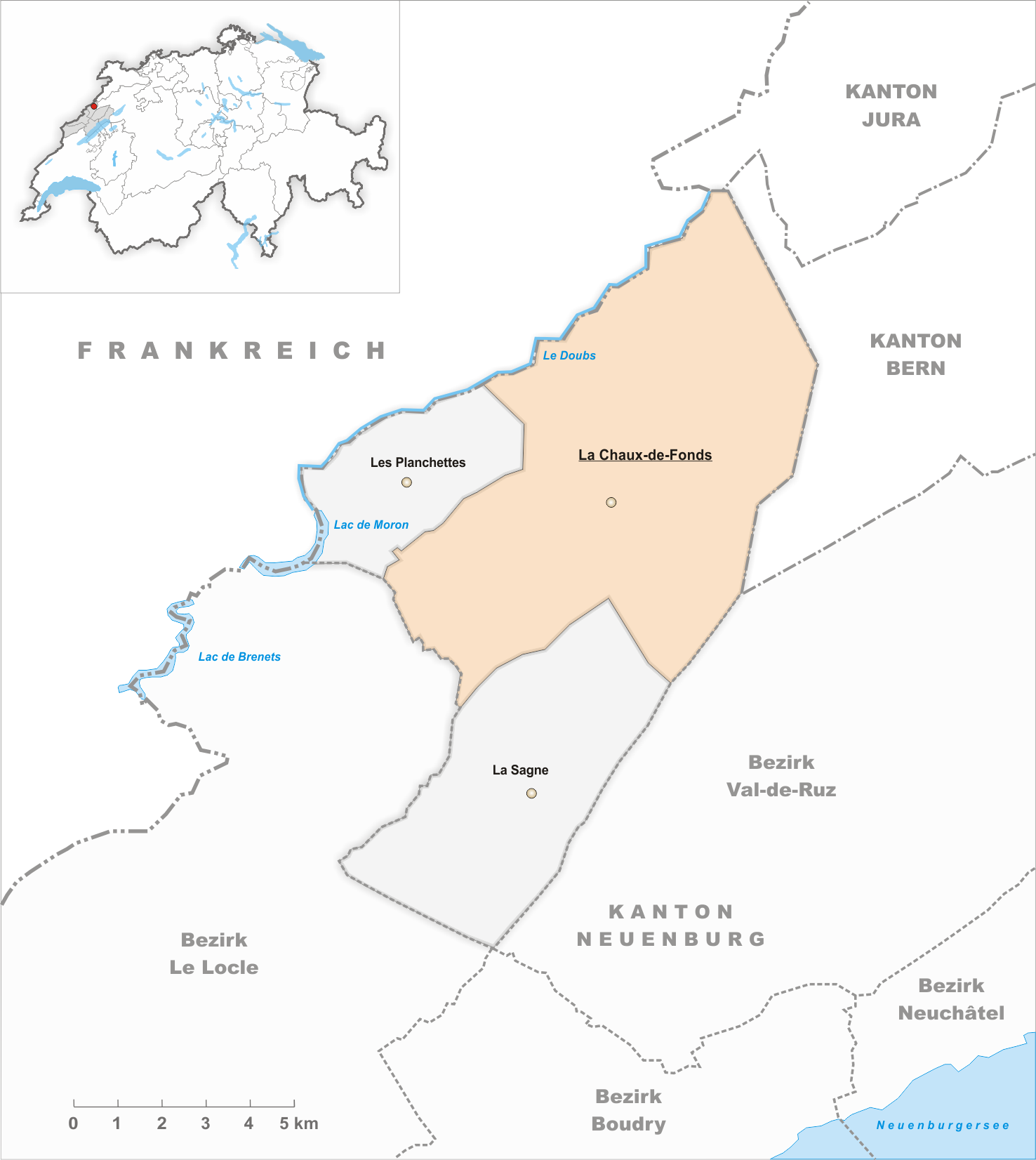 Municipality La Chaux-de-Fonds